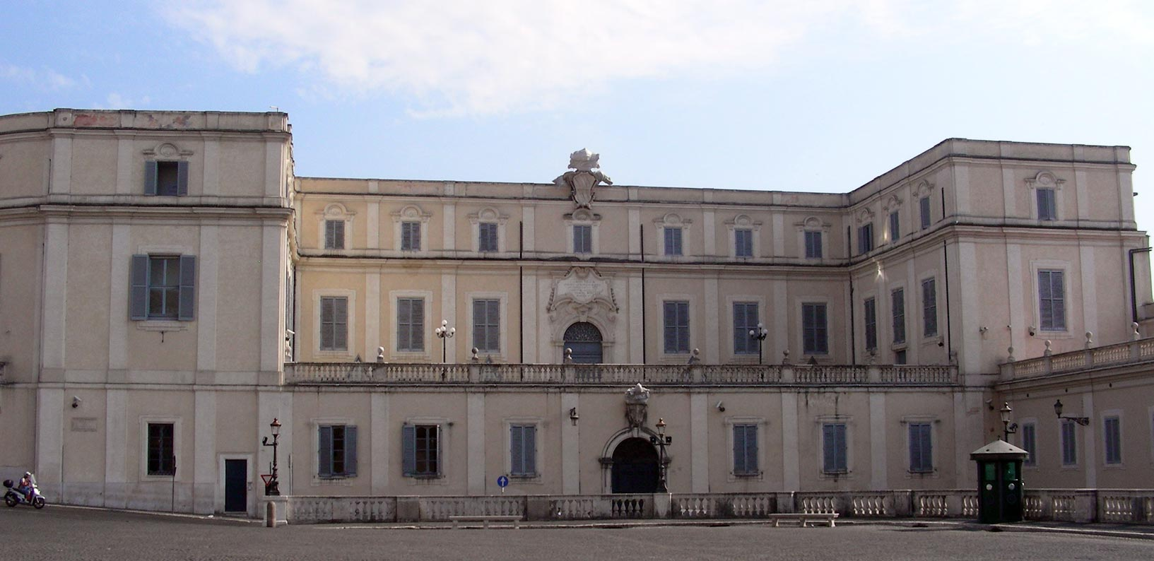 Rome, Quirinal's Stables, side on Quirinal Square